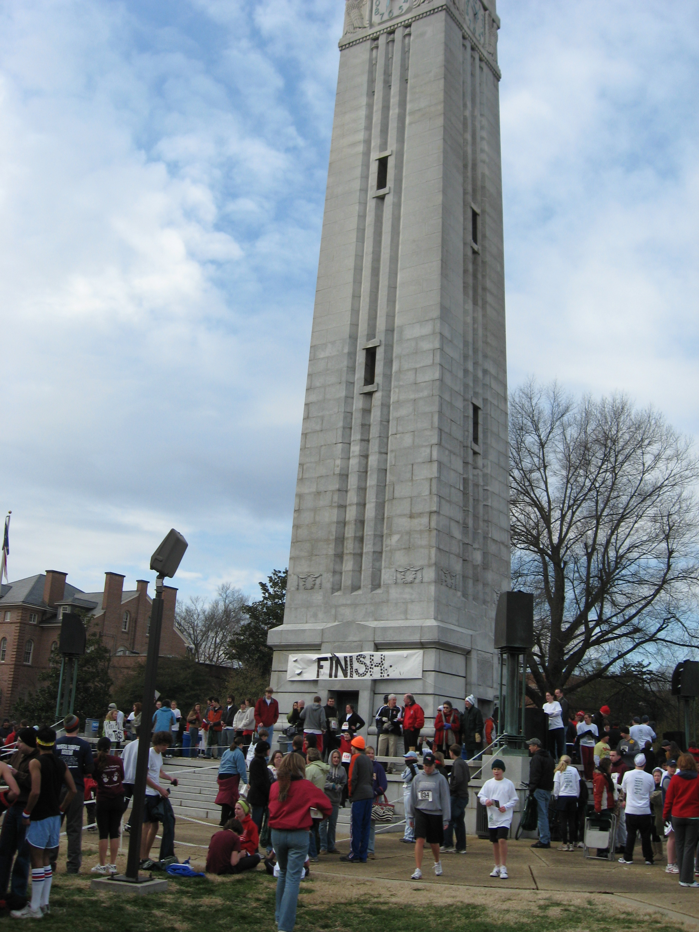 A photo from the Krispy Kreme Challenge in Raleigh, NC